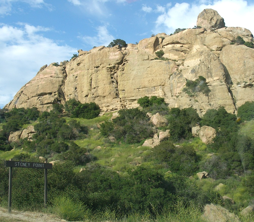 Stoney Point. It is next to Topanga Canyon Boulevard, in the San Fernando Valley, which lies within the city of Los Angeles.